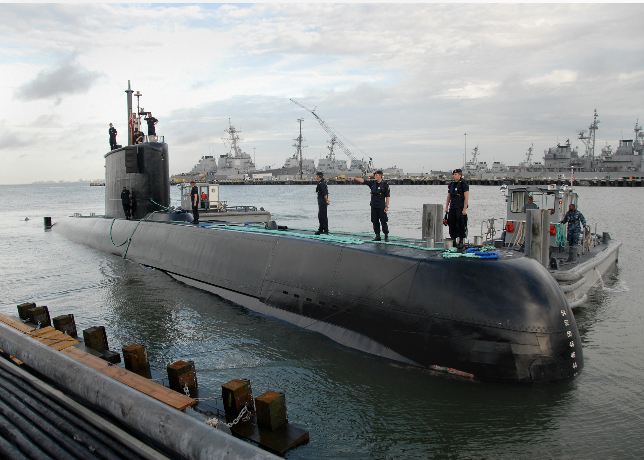 NORFOLK (Sept. 27, 2010) The Norwegian diesel electric submarine HNOMS UTVAER (S303) arrives at Naval Station Norfolk. The arrival marks the first time a Norwegian submarine has pulled into a U.S. port. UTVAER will play a part in anti-submarine training while operating with the Enterprise Carrier Strike Group. (U.S. Navy photo by Chief Mass Communication Specialist Marlowe P. Dix/Released)